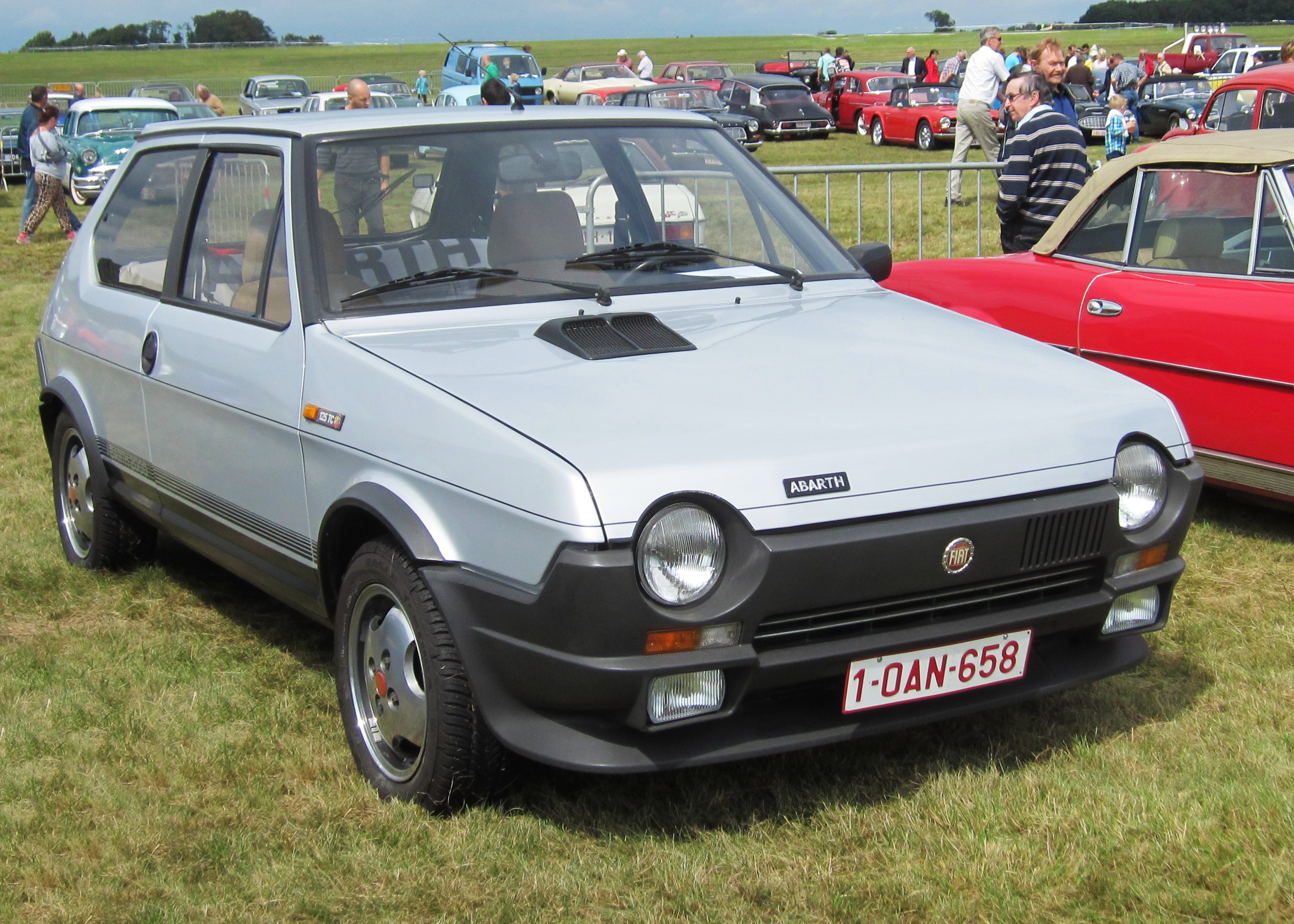 Fiat Ritmo Abarth